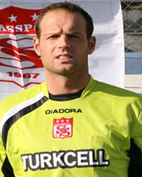 Petkoviç at Sivasspor